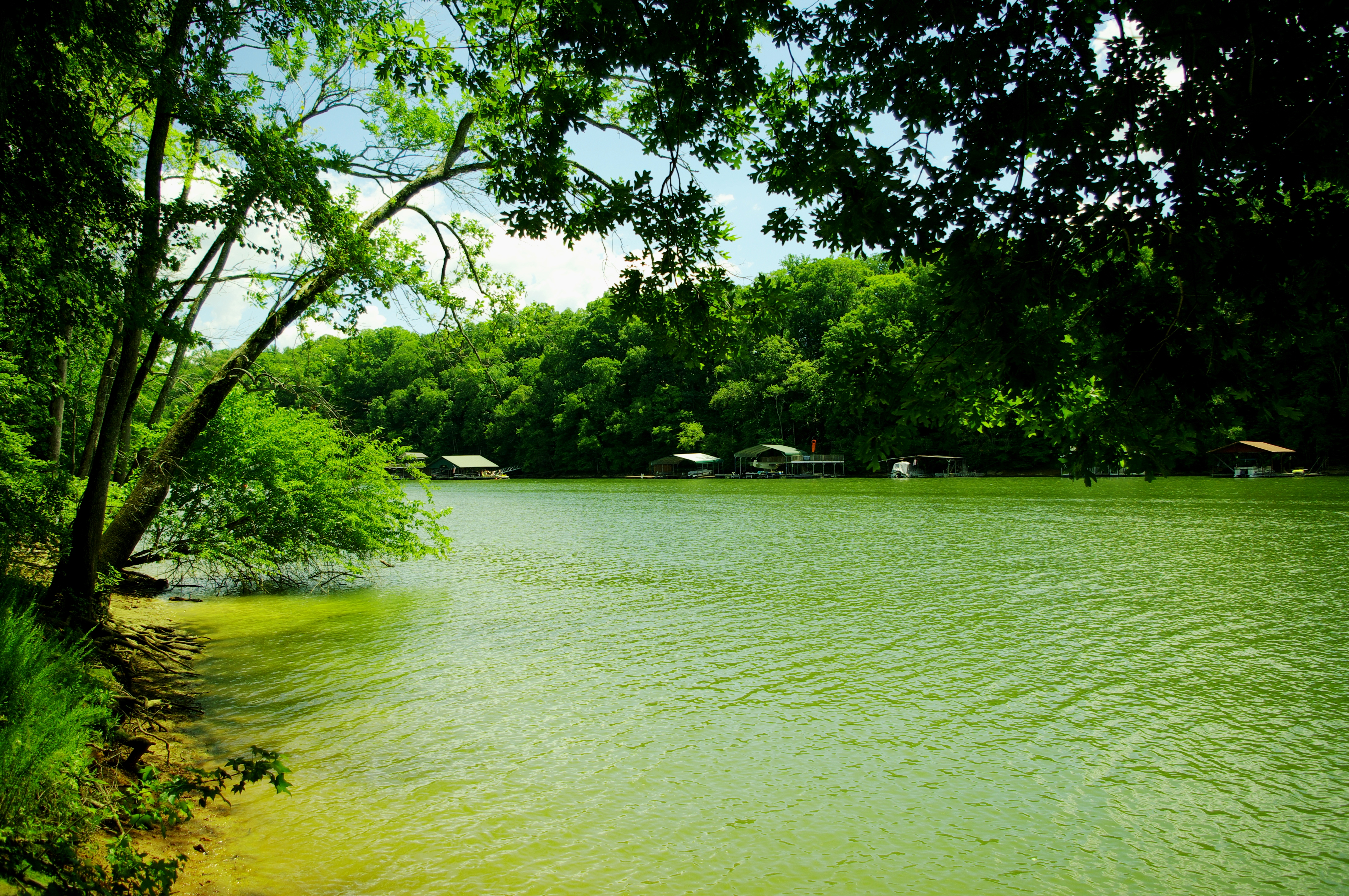 The Collins River in the U.S. state of Tennessee, looking downstream from just off the Collins River Trail at Rock Island State Park. This section of the river is part of Great Falls Lake.